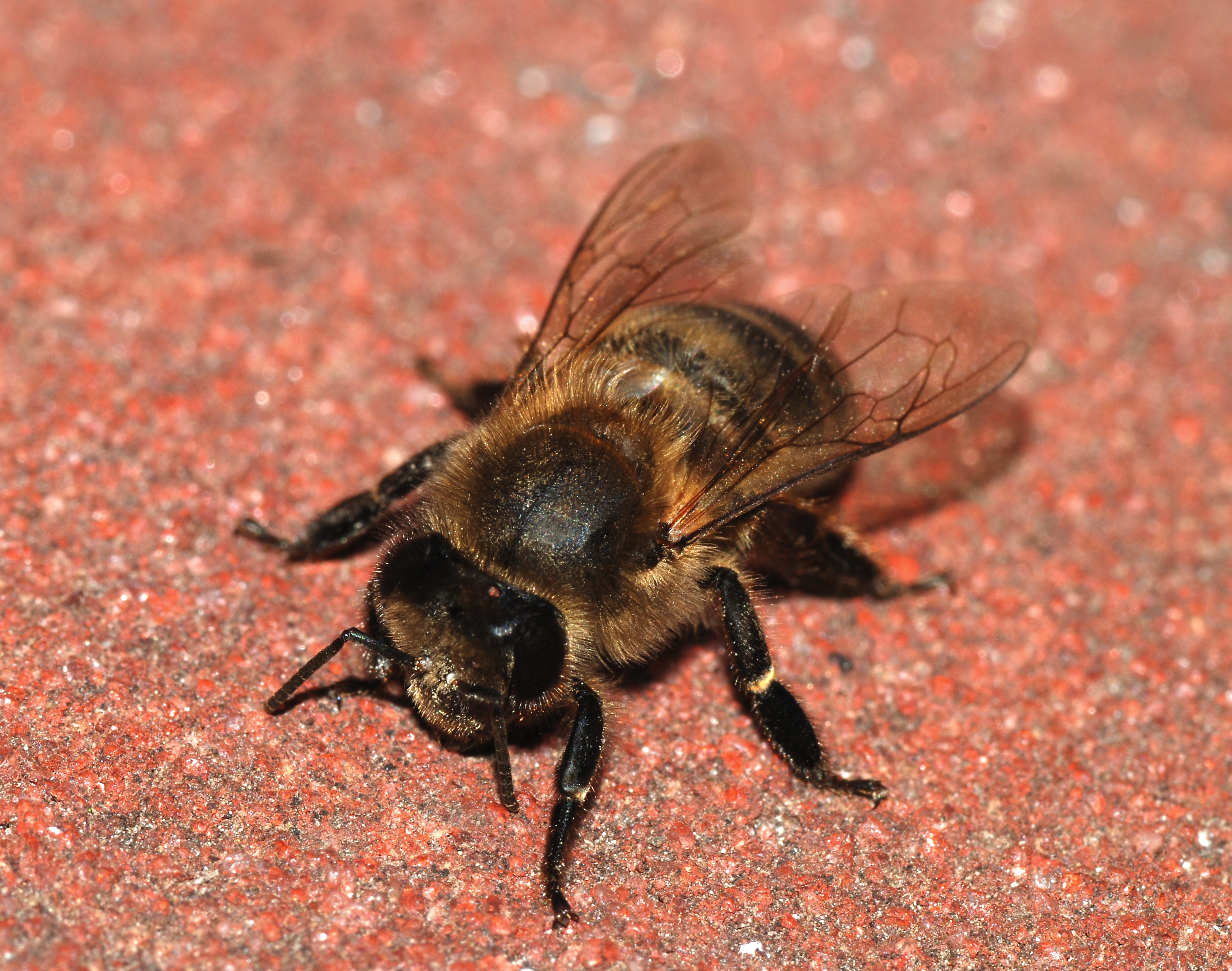 A honeybee (Apis mellifera)